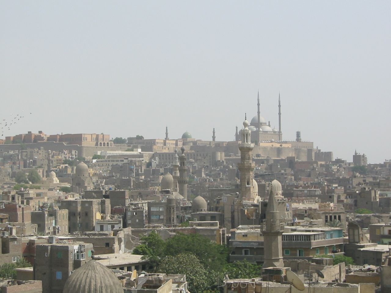 Islamic Cairo.